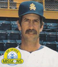 Professional baseball coach Pat Zachry